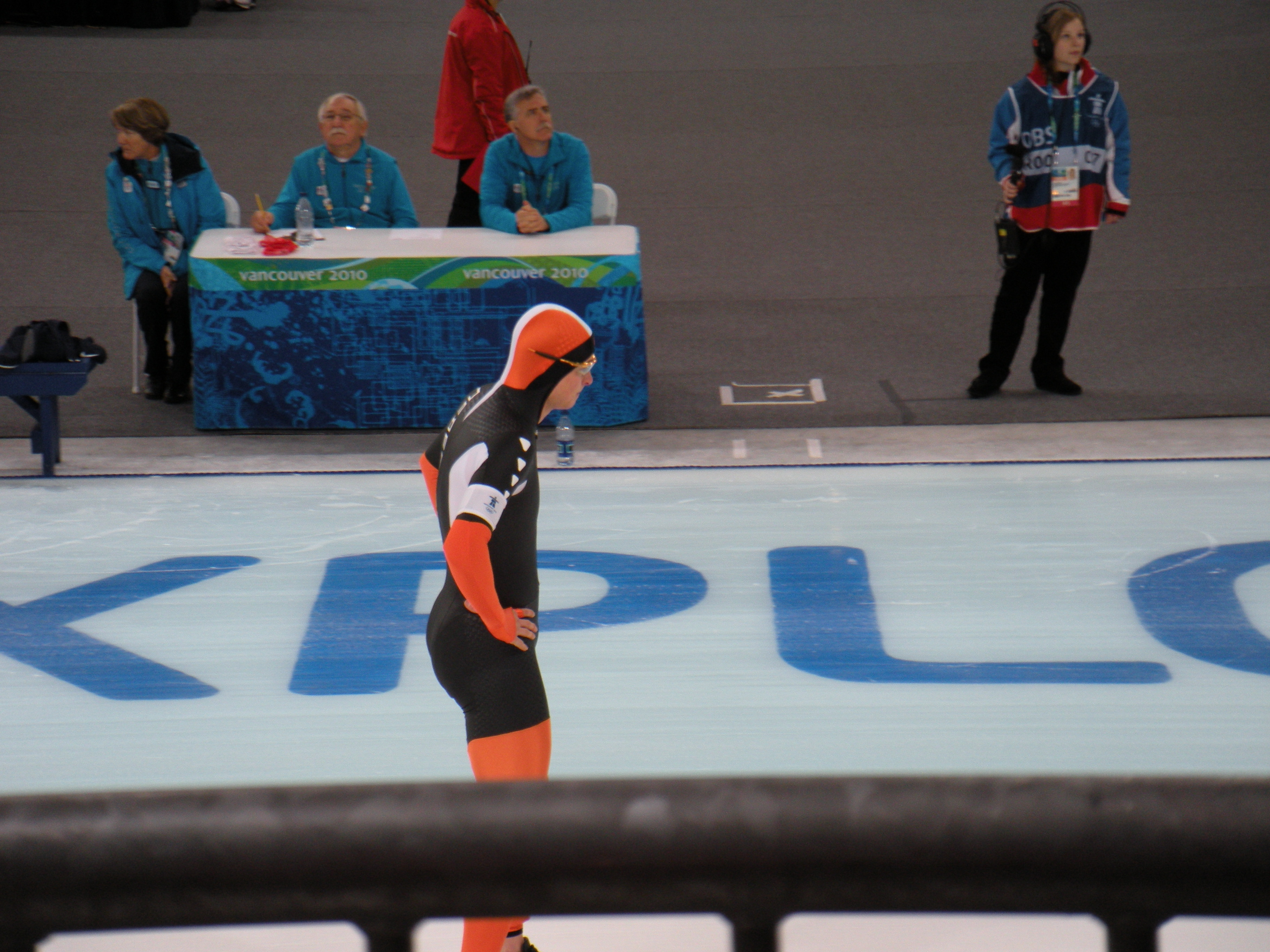 Sven Kramer, Netherlands, getting ready for his skate which resulted in an Olympic record and a gold medal at the end of his 6 minutes. The crazy Dutch fans in our row were obsessed with Sven.